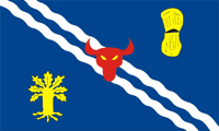 Flag of Oxfordshire